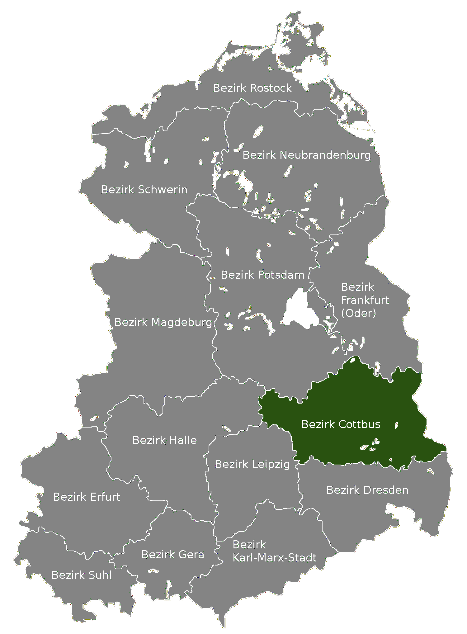 Map based on German Wikipedia